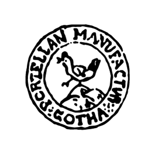 used amongst others 1834–1860